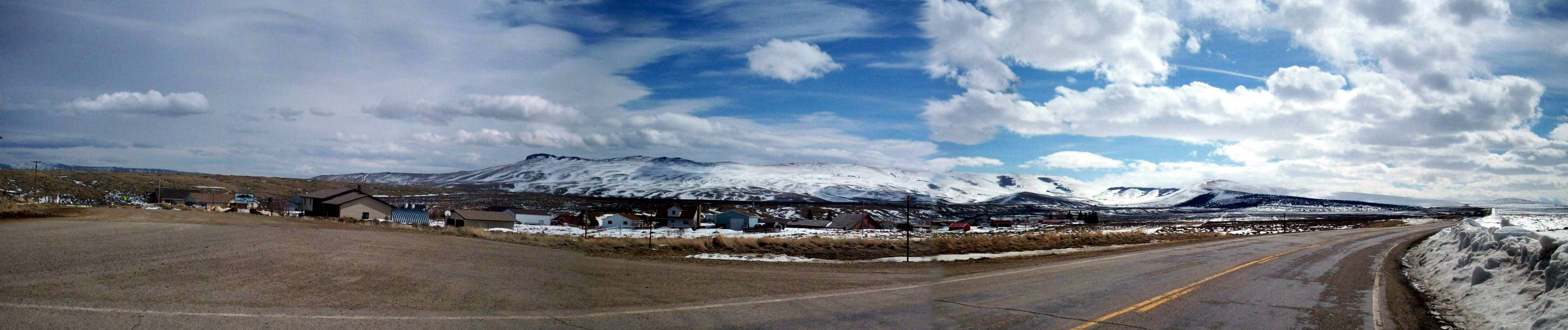 Aspen Mountain (Wyoming) from Arrowhead Springs, Wyoming.